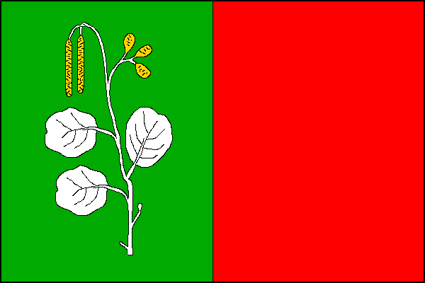 Municipal flag of Olšany village, Vyškov District, Czech Republic.